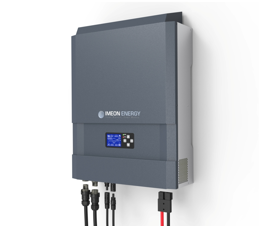 hybrid inverter IMEON Energy